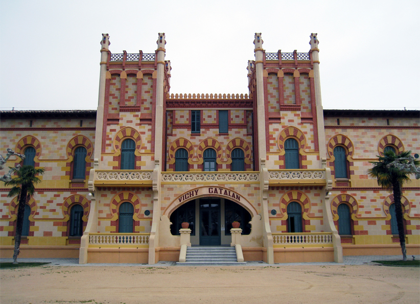 Thermal bath spa Vichy Catalan in Caldes de Malavella, Catalonia (Spain).